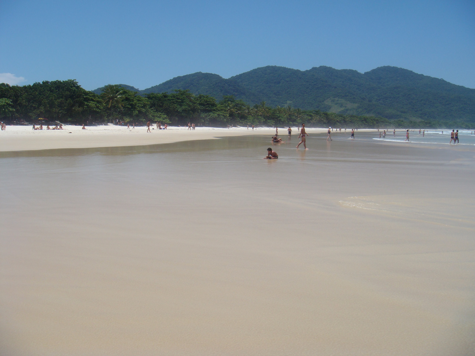 Lopes Mendes beach in Ilha Grande, Brazil